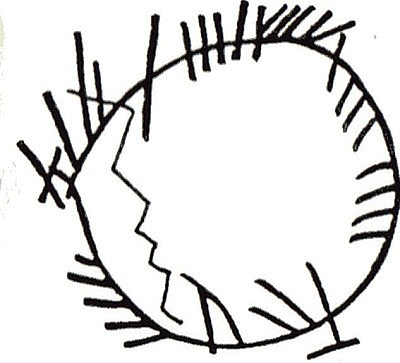 Buckquoy spindle whorl (about 8th century AD), drawing of the Ogham inscription.